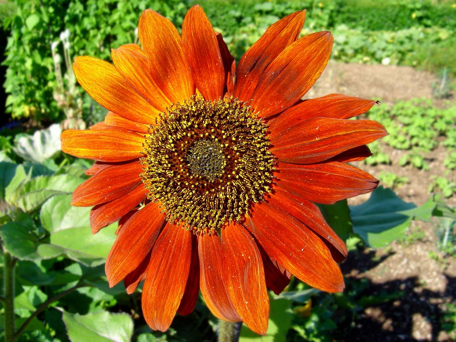 Sunflower / Tournesol